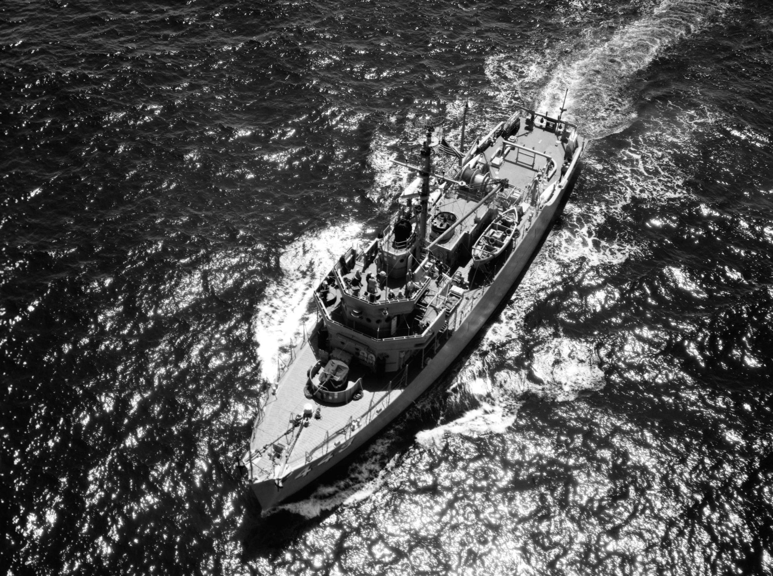 The U.S. Navy minesweeper USS Impervious (MSO-449) underway, in June 1954.